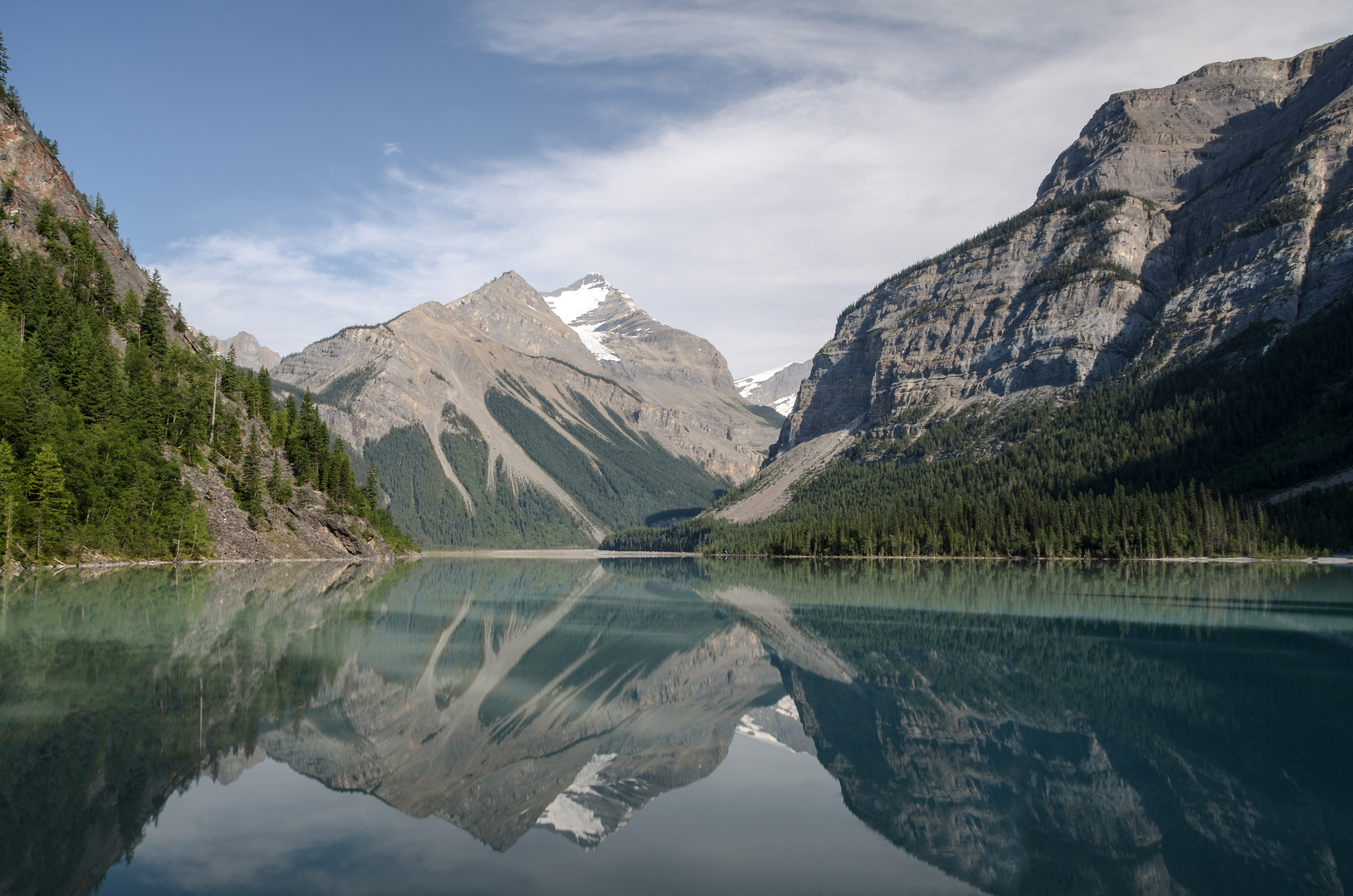 Kinney Lake and Mount Whitehorn near Mount Robson, Canada Qırımtatarca: Kinni gölü ve Vaythorn dağı, Maunt Robson parkı, Britan Kolumbiya vilâyeti